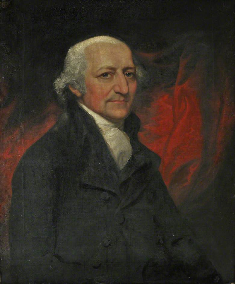 Portrait of John Lewis Petit (1736–1780), English physician.